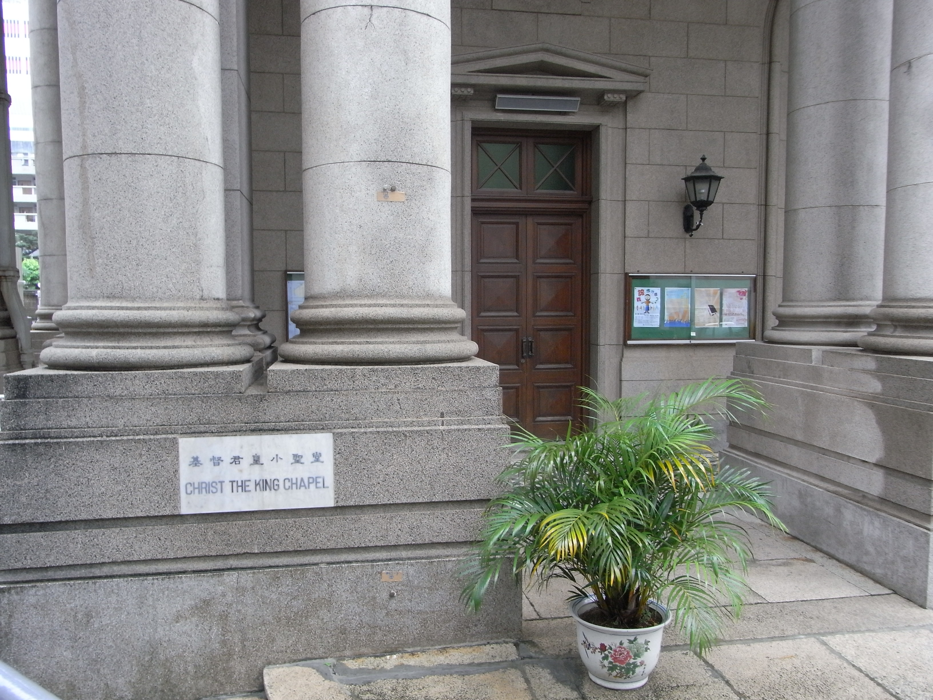 銅鑼灣2010年6月 基督君皇小聖堂